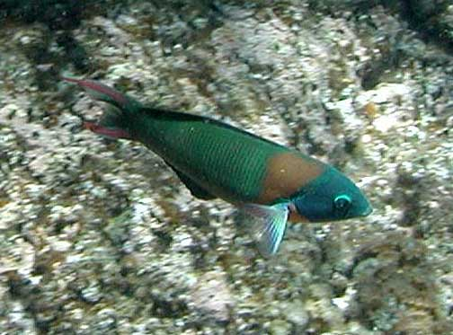 Thalassoma duperrey (Syn. Thalassoma duperreyi)